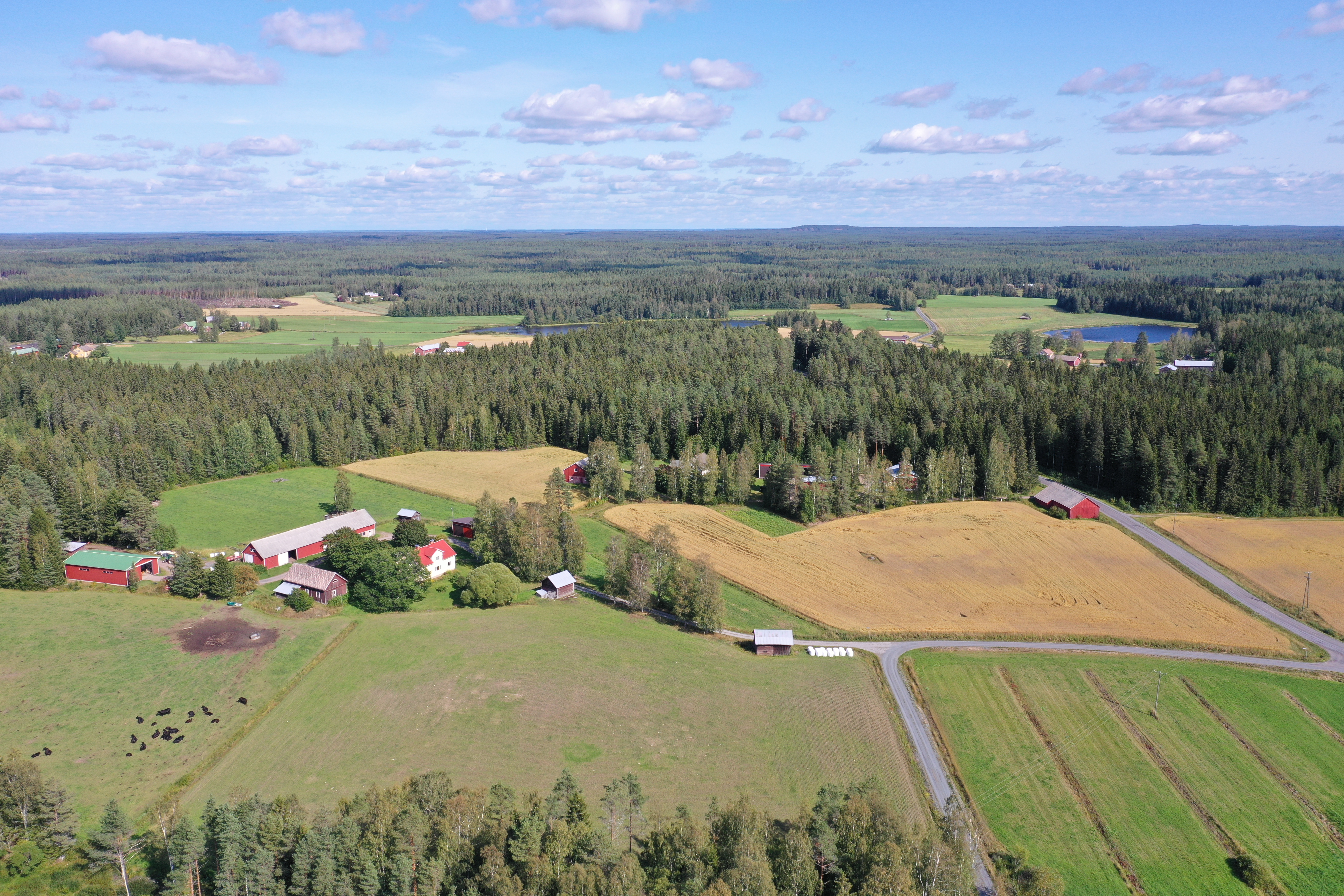 Peräkunta village in Suodenniemi, Finland